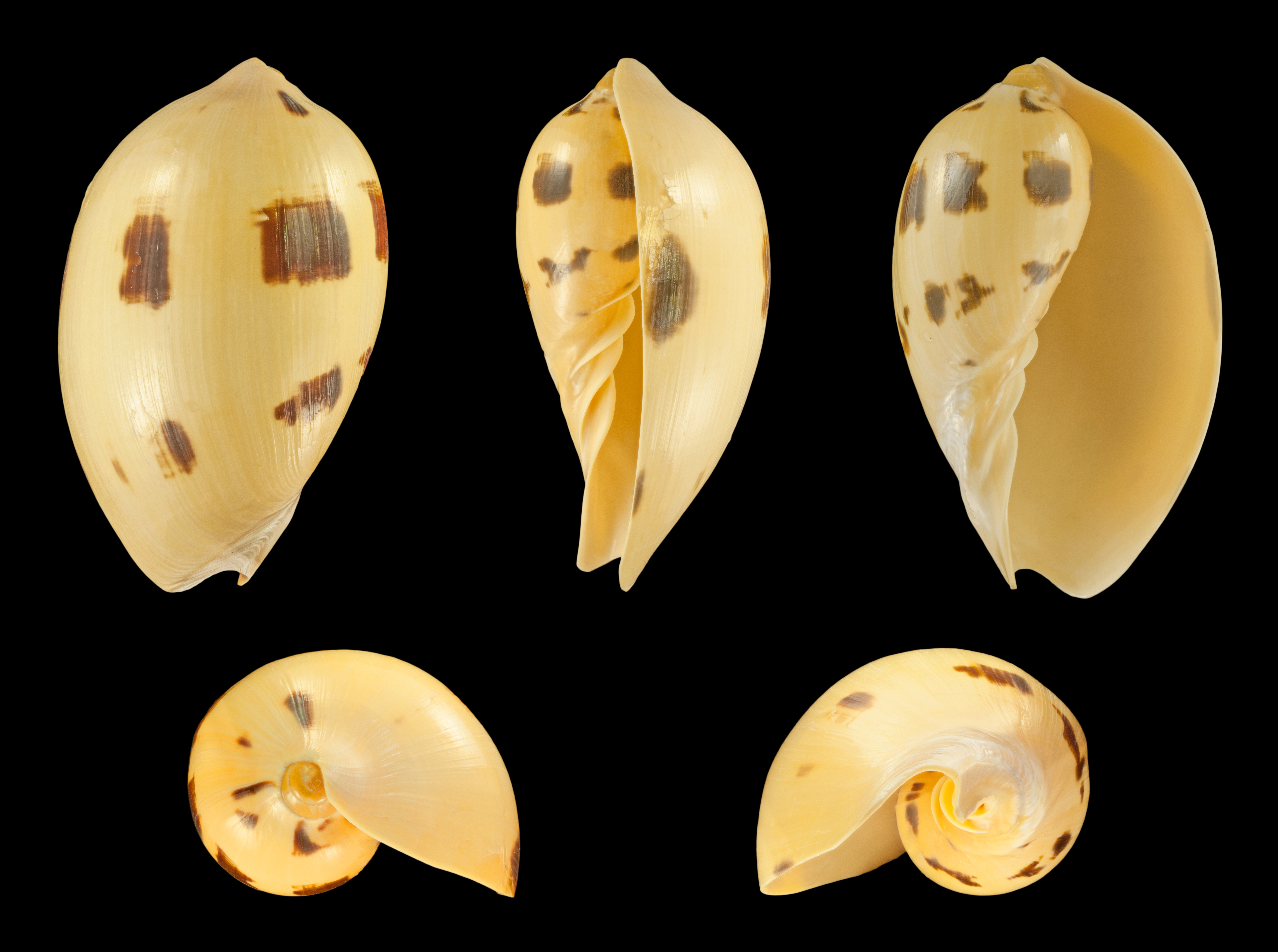 Melo melo (Lightfoot, 1786), Indian volute; length 12.4 cm; Originating from the Philippines; Shell of own collection, therefore not geocoded.